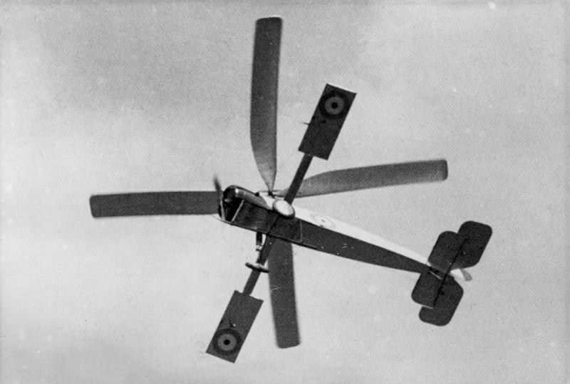 Title: Windmühlen-Aeroplan Additional information: Cierva C.6 autogiro Factual corrections and alternative descriptions are encouraged separately from the original description. Additionally errors can be reported at this page to inform the Bundesarchiv. Original historic description: Das Flugzeug der Zukunft ! Eine interessante Aufnahme des Windmühlen-Aeroplanes des spanischen Ingenieurs de la Cierva bei einer Vorführung auf dem englischen Flugplatz in Croydon.